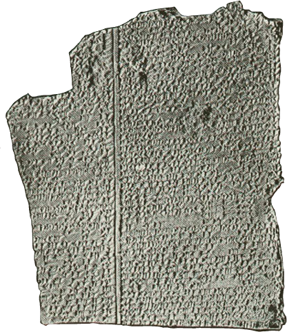 Deluge Tablet (Babylonian, Gilgamesh)